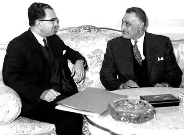 Iraqi Prime Minister Abd al-Rahman al-Bazzaz (left) meeting with Egyptian President Gamal Abdel Nasser in Cairo